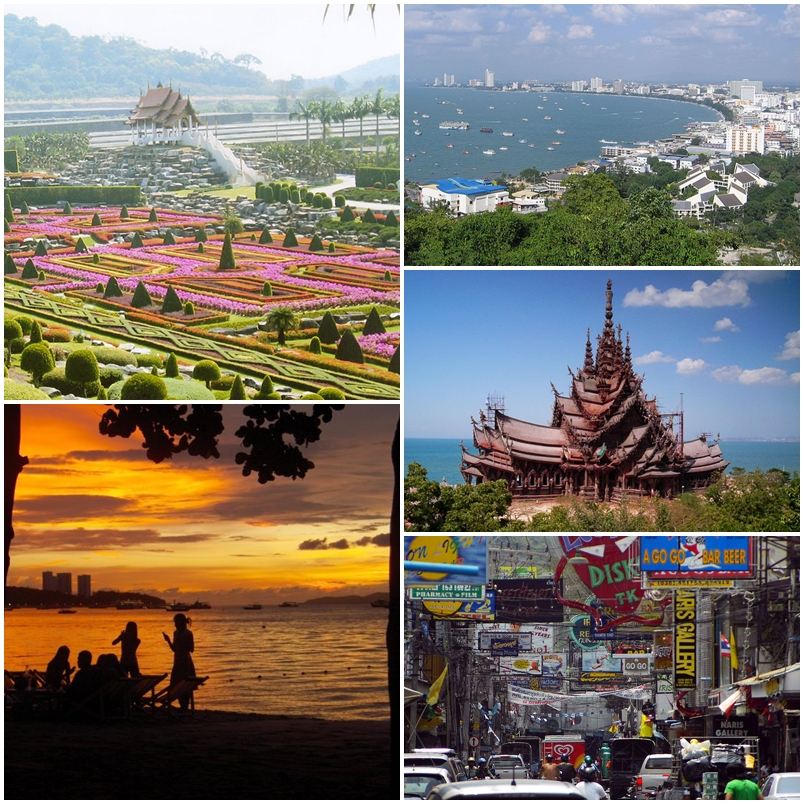 Montage of Pattaya.